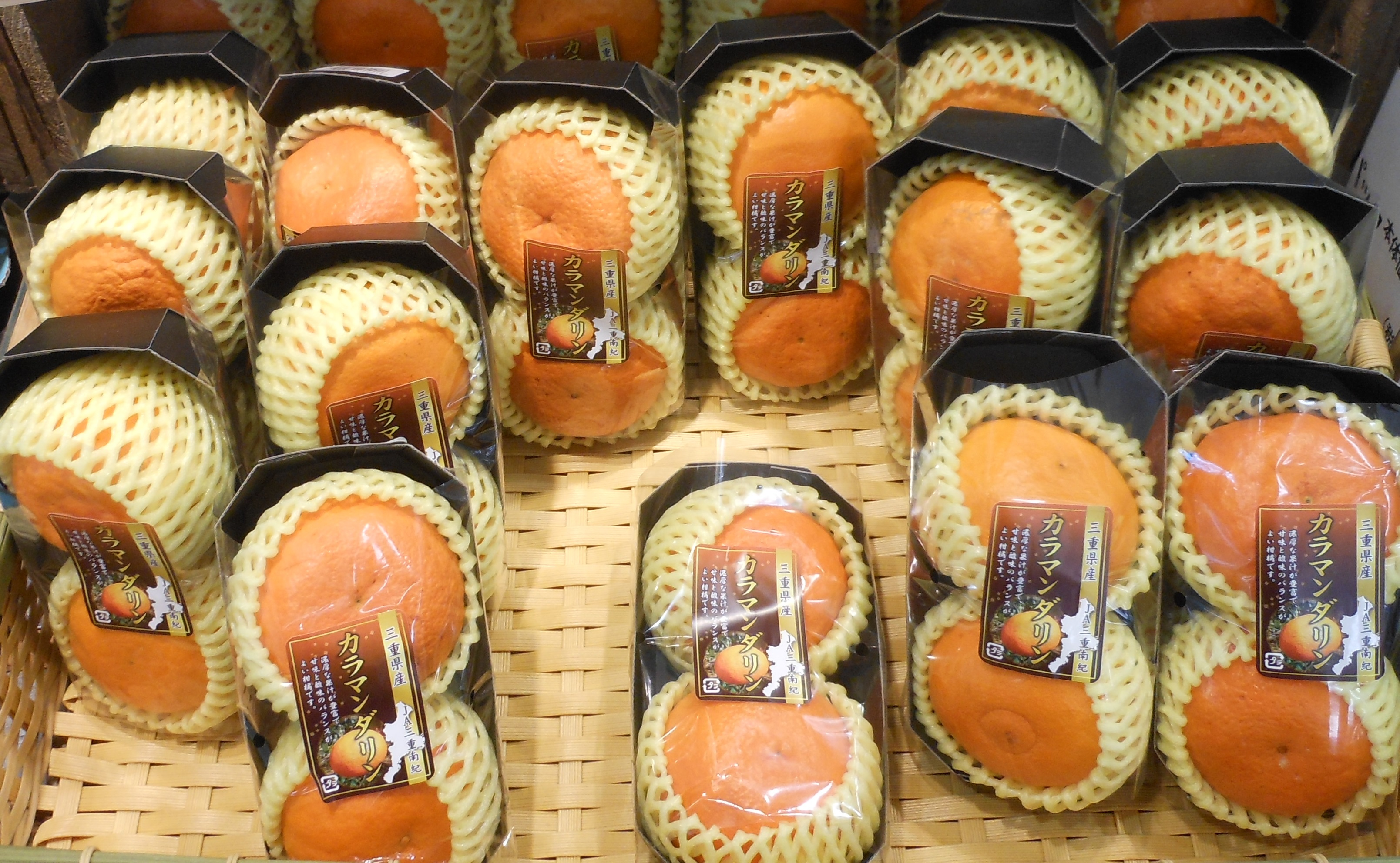 These are Kara Mandarins sold at a supermarket. These are producted in Kinan area, Mie prefecture, Japan (Mie Nanki Agricultural Cooperatives Association area).